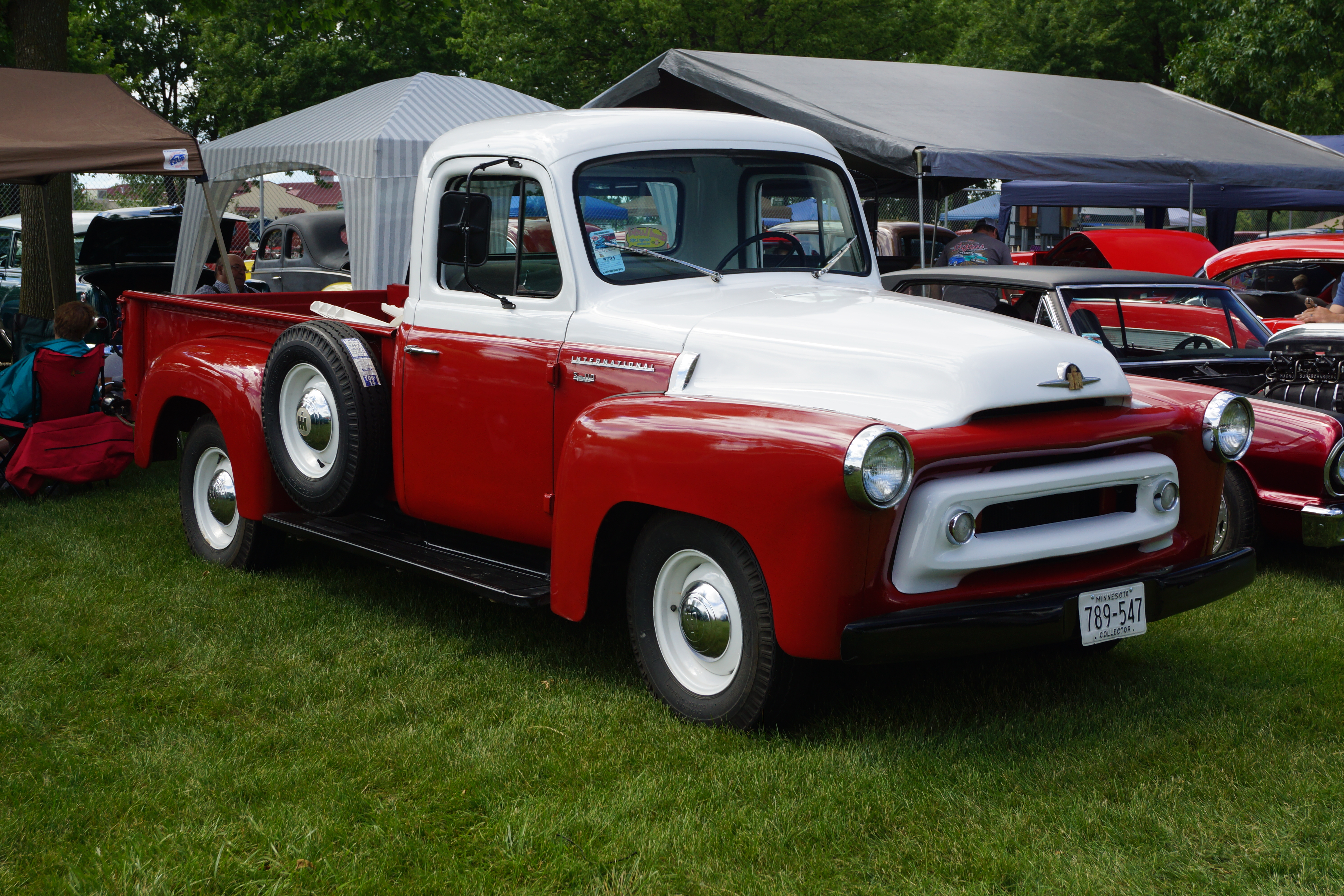 Minnesota Street Rod Association (MSRA) “BACK TO THE 50′s” 44th Annual Car Show June 23-25, 2017 Minnesota State Fairgrounds St. Paul Minnesota Click here for previous "Back to the 50's" pictures.. Click here for more car pictures at my Flickr site. Or here for my Car Crazy Tumblr site. Or on Twitter @DVS1mn.